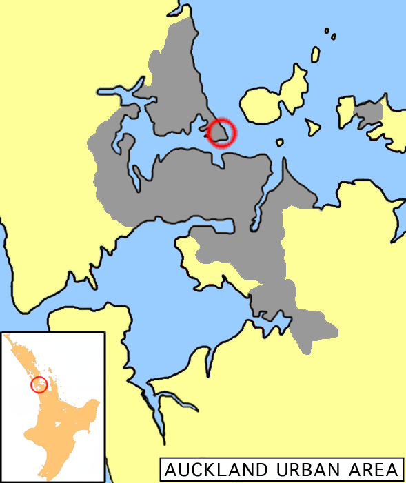 Location of Devonport, New Zealand. Location map of Devonport, New Zealand